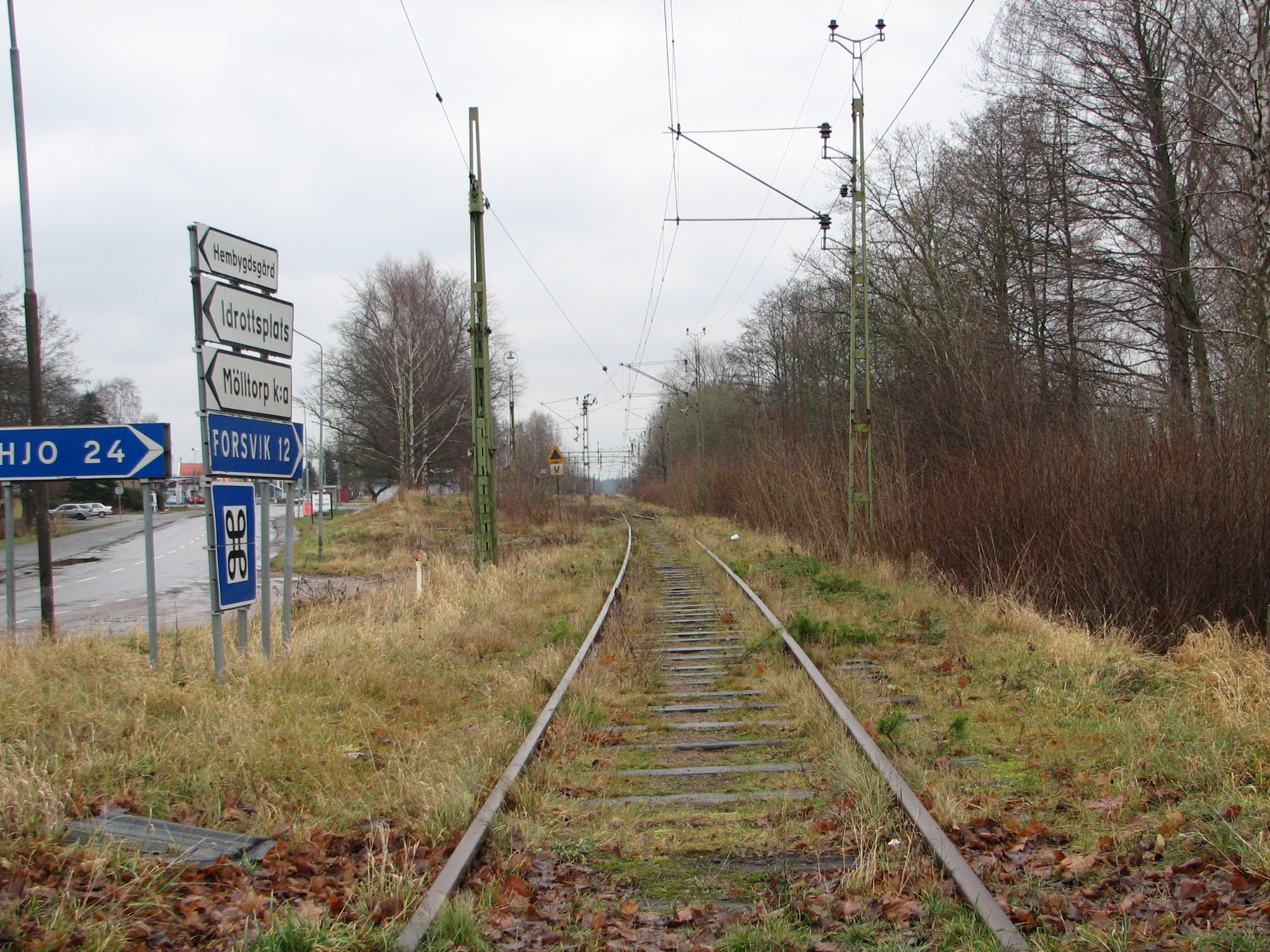 Railway line Skövde-Karlsborg at Mölltorp